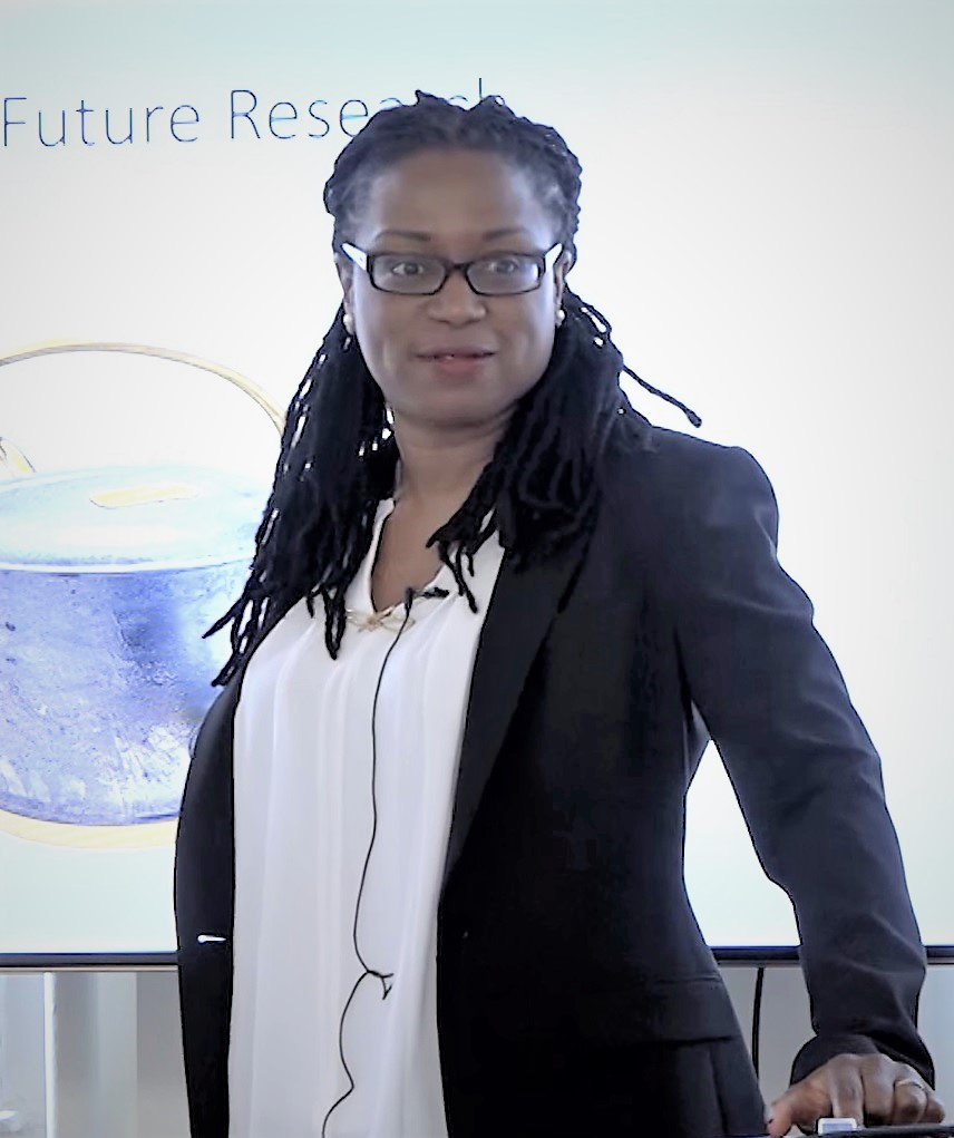 Databite No. 41: Ifeoma Ajunwa Ifeoma Ajunwa on genetic coercion: Although we cannot disclaim the utility of genetic data, it is important to consider whether we are being socially and governmentally coerced to relinquish our genetic data. If so, what does this mean for privacy and discrimination? What are the obstacles and potential solutions to securing genetic data? Databites are Data & Society’s weekly lunch conversations focused on unresolved questions and timely topics of interest to our community. To request an invitation, please email events at data society dot net. Intro and outro music tracks by Podington Bear: The Sound of Picture Production Library .